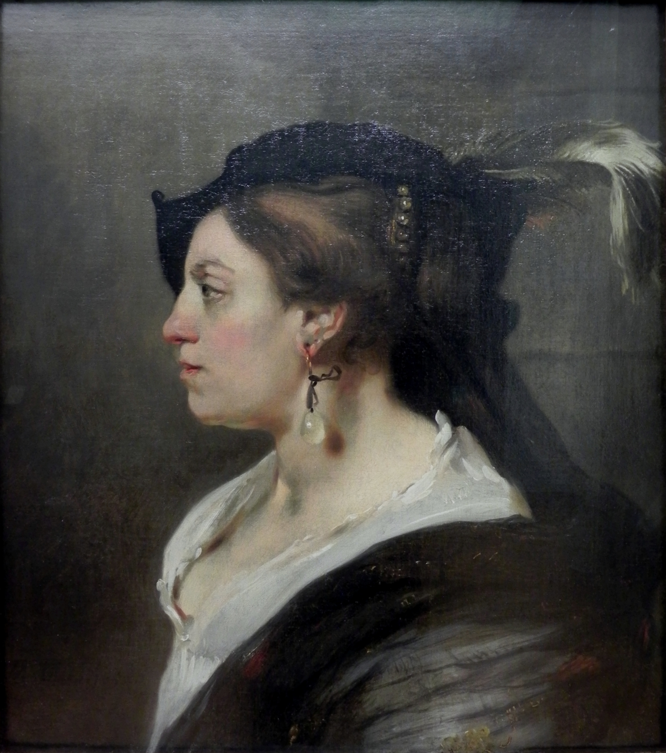 Portrait of a lady in profile